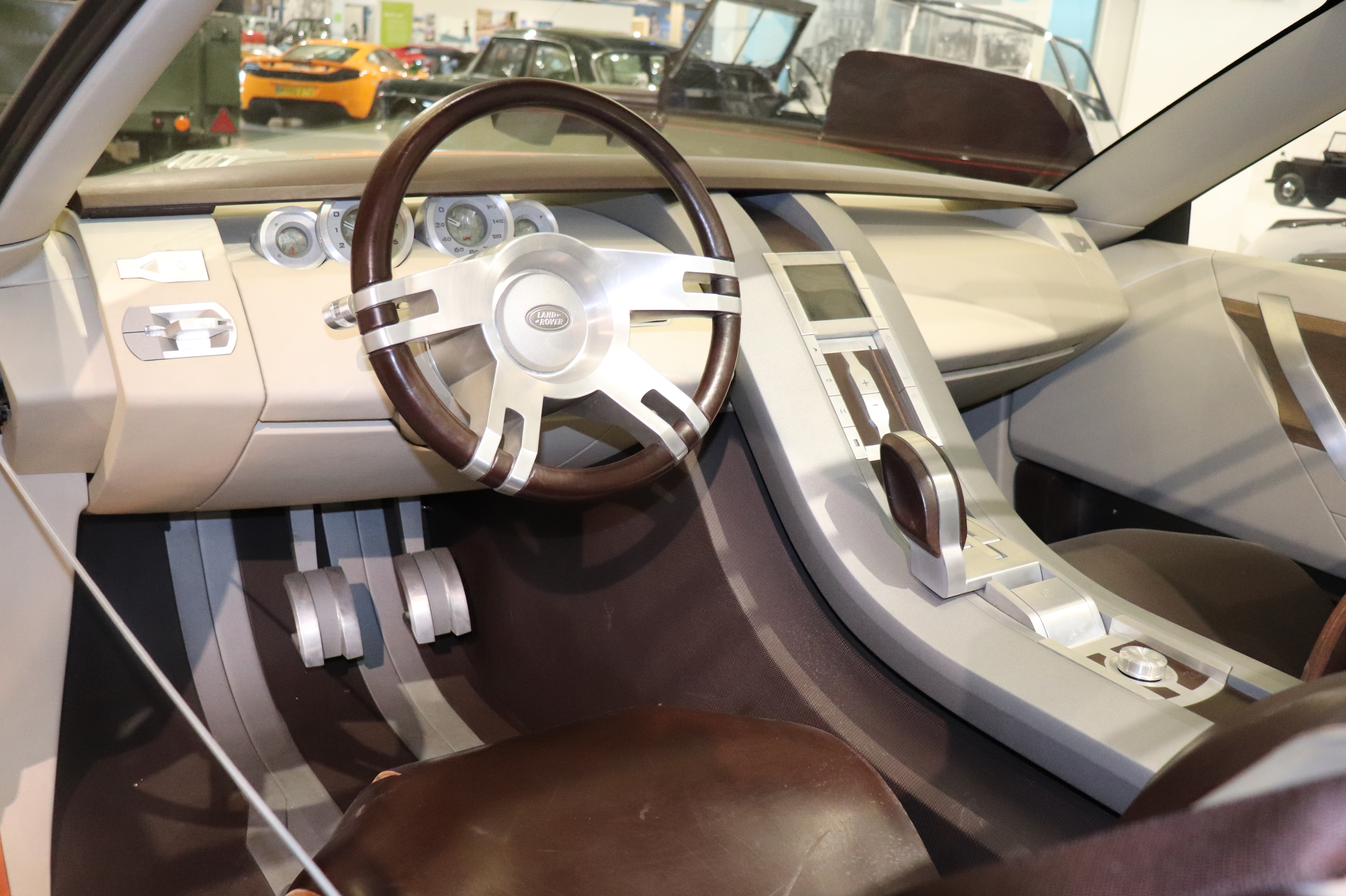 2004 Land Rover Range Stormer Concept 4.2 Interior Taken at the British Motor Museum, Gaydon